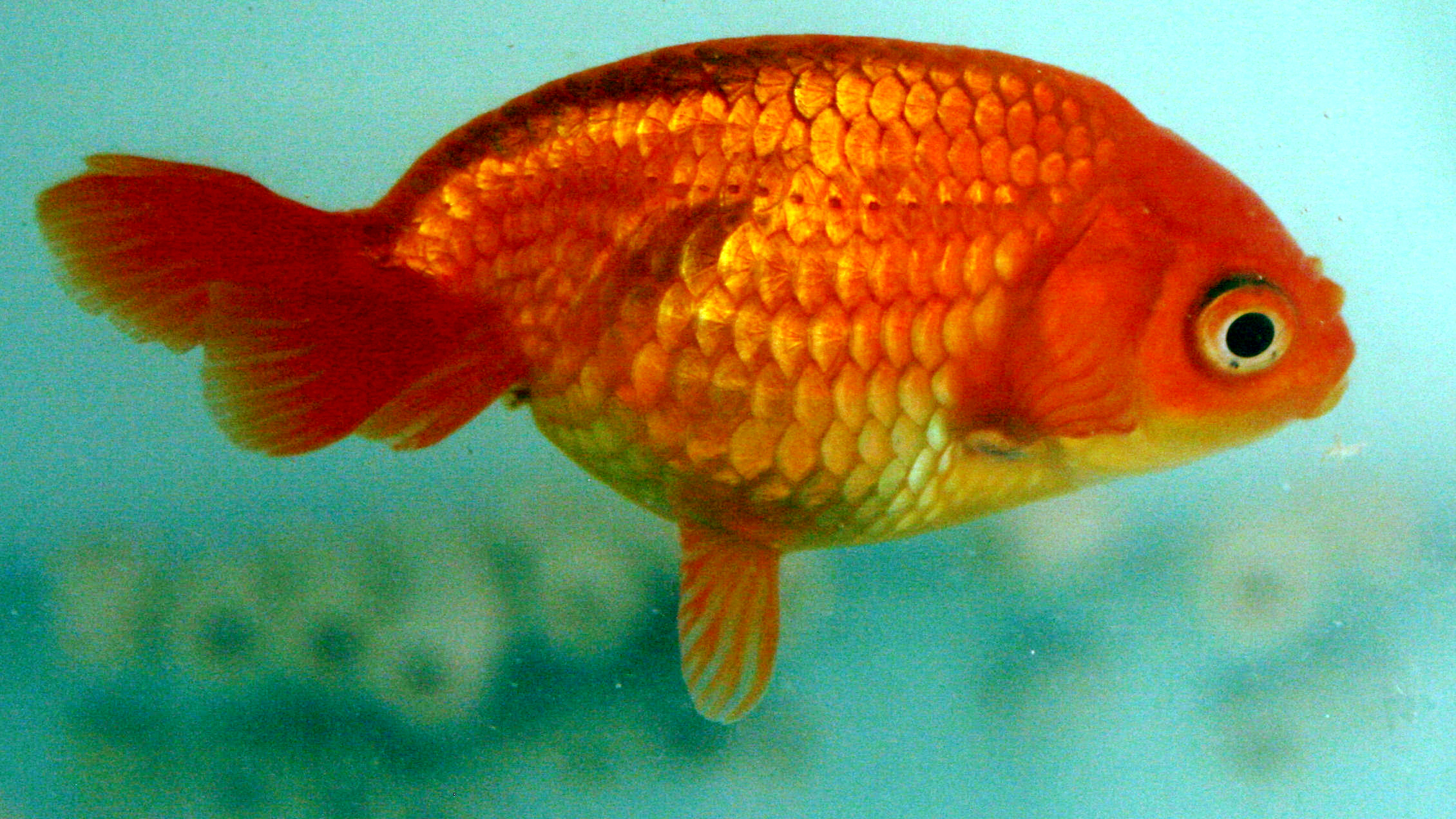 eggfish. (type of goldfish breed). no dorsal fin and no wen.